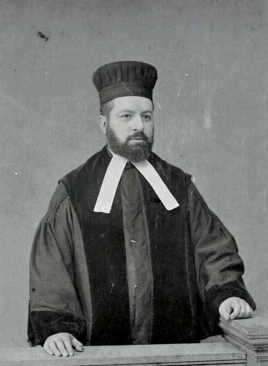 Lion Wagenaar (1855-1930), chief rabbi in the Netherlands